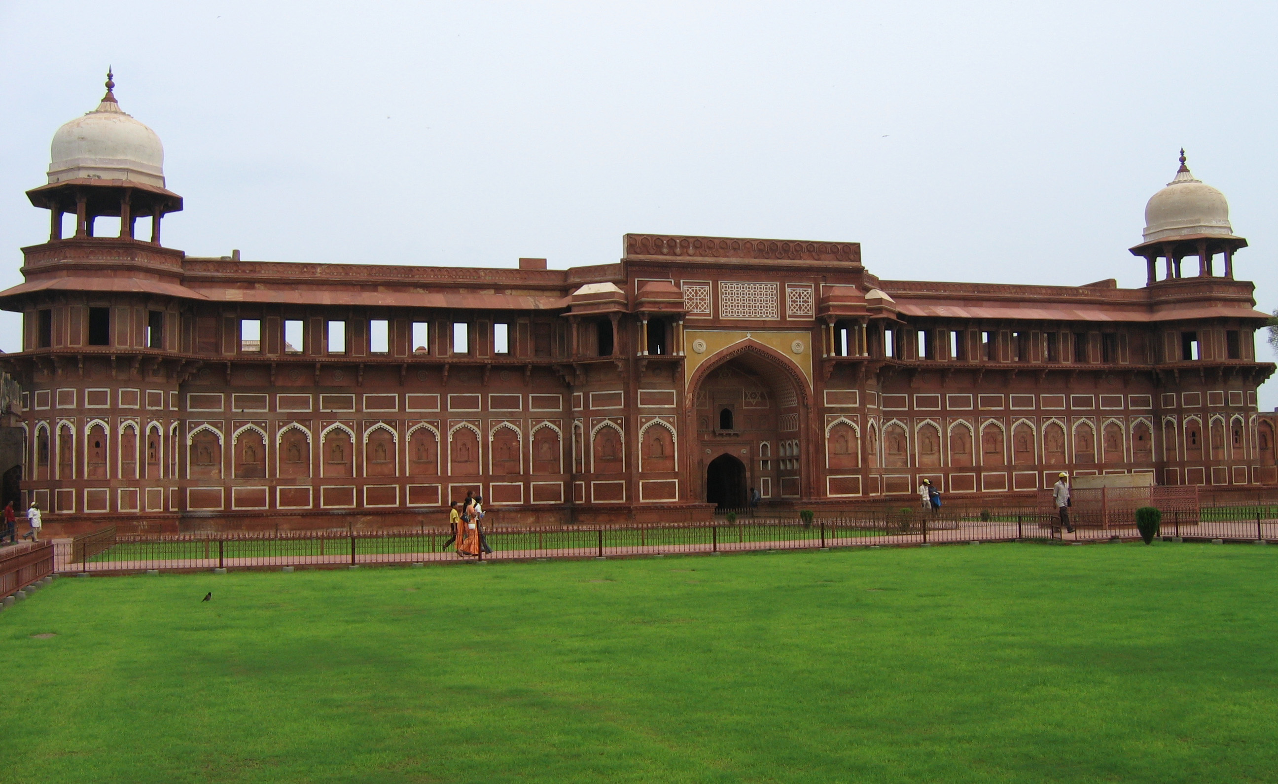 Agra Fort - views inside and outside